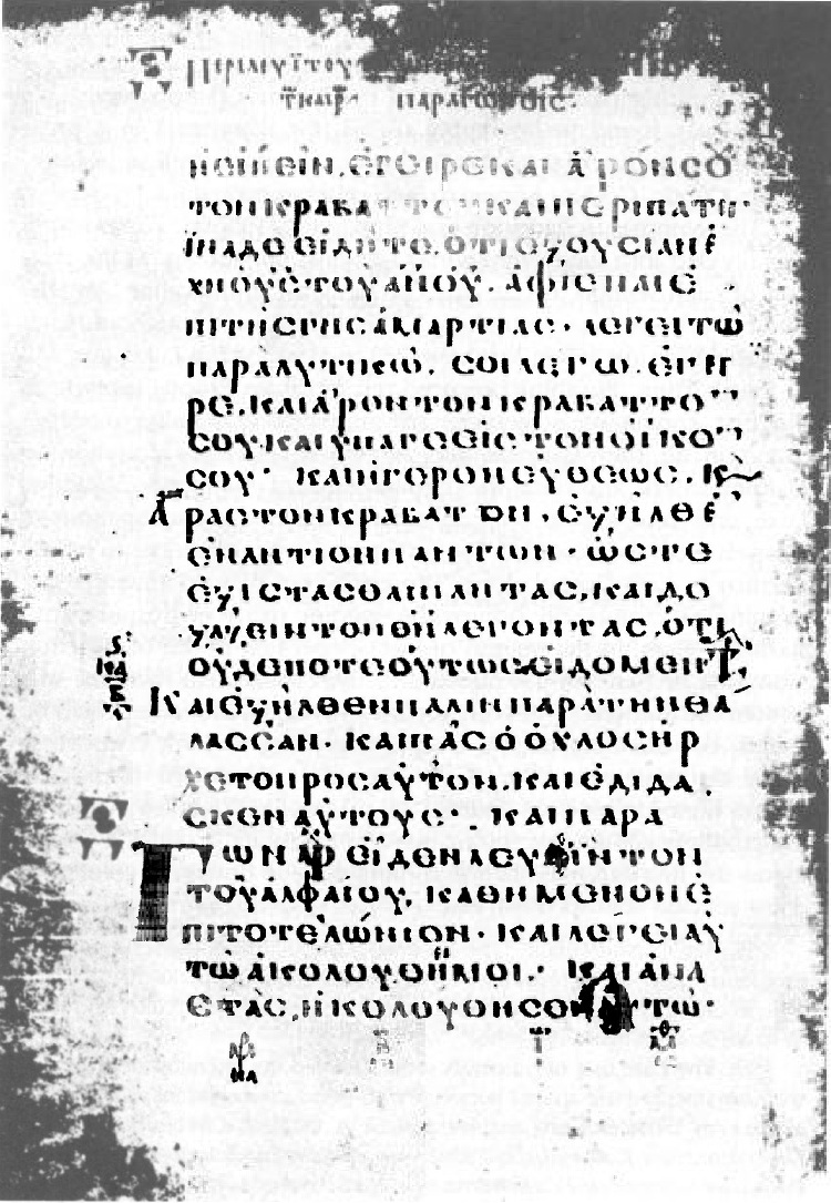 texte de Marc 2,9-14